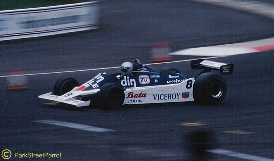 Eliseo Salazar - Williams-Cosworth FW07 Aurora F1 - Silverstone 1980 Round 3 - International Trophy 20 April 1980 - Silverstone: 165.116 km (4.718 km x 35 laps)